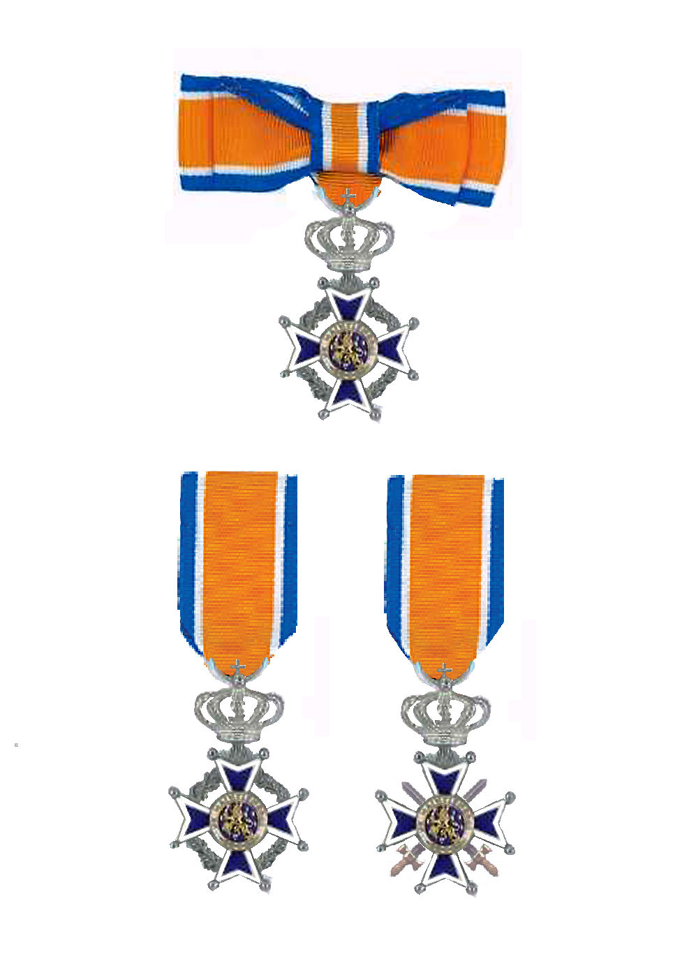 Member in the Order of Orange-Nassau